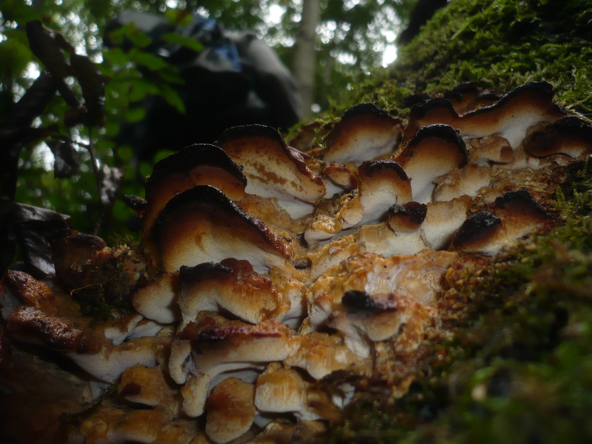 Frantisekia mentschulensis (Pilat) Spirin Image location: Moosgraben, Vienna, Austria Formerly known as Tyromyces. Earlier descriptions of Aurantioporus fissiliformis include this species pro parte at least ss. auct. europ. … Recognized by sight: on beech, determined during a student foray Used references Based on microscopic features For more information about this, see the observation page at Mushroom Observer.